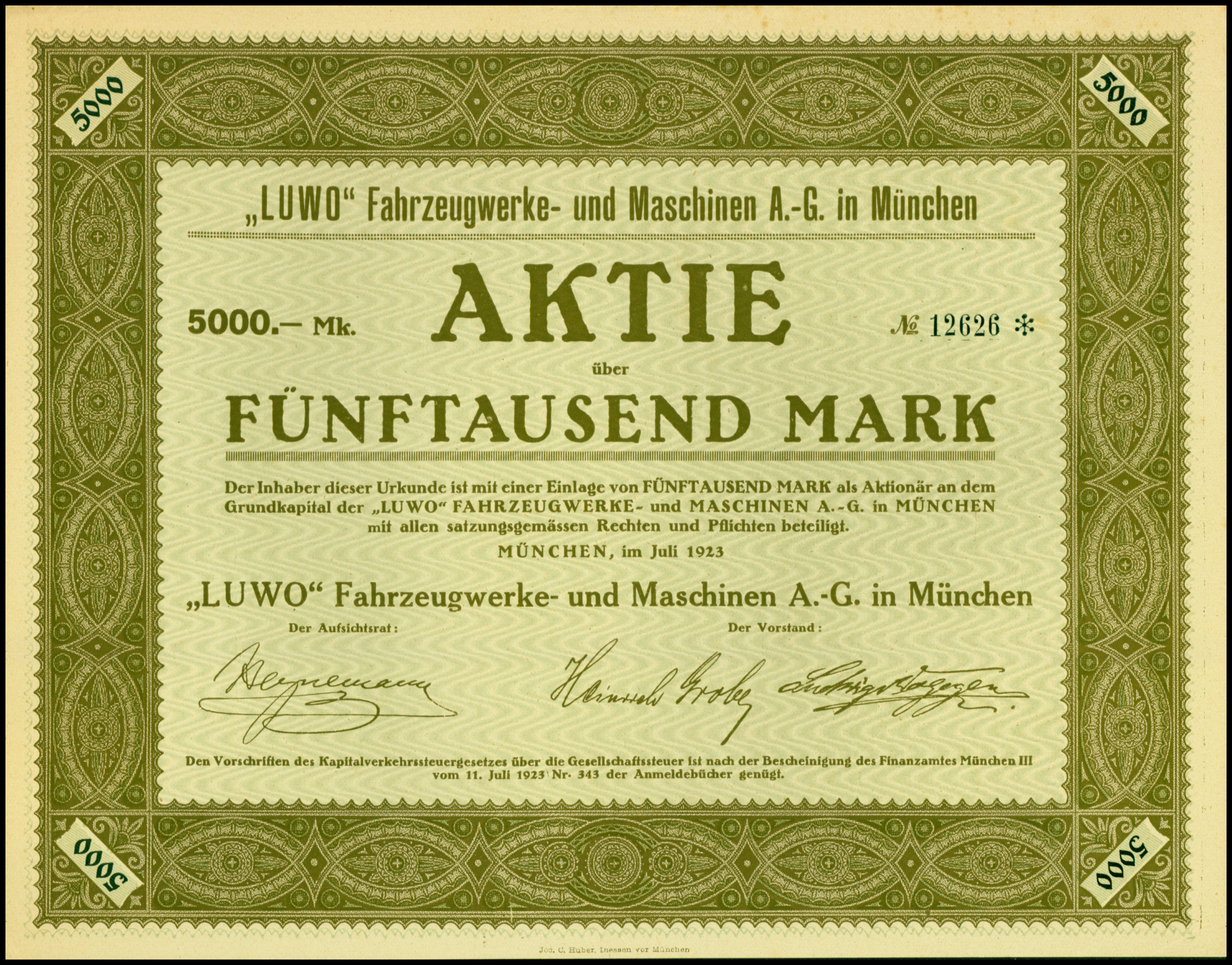 Share of the Luwo Fahrzeugwerke und Maschinen AG, issued July 1923